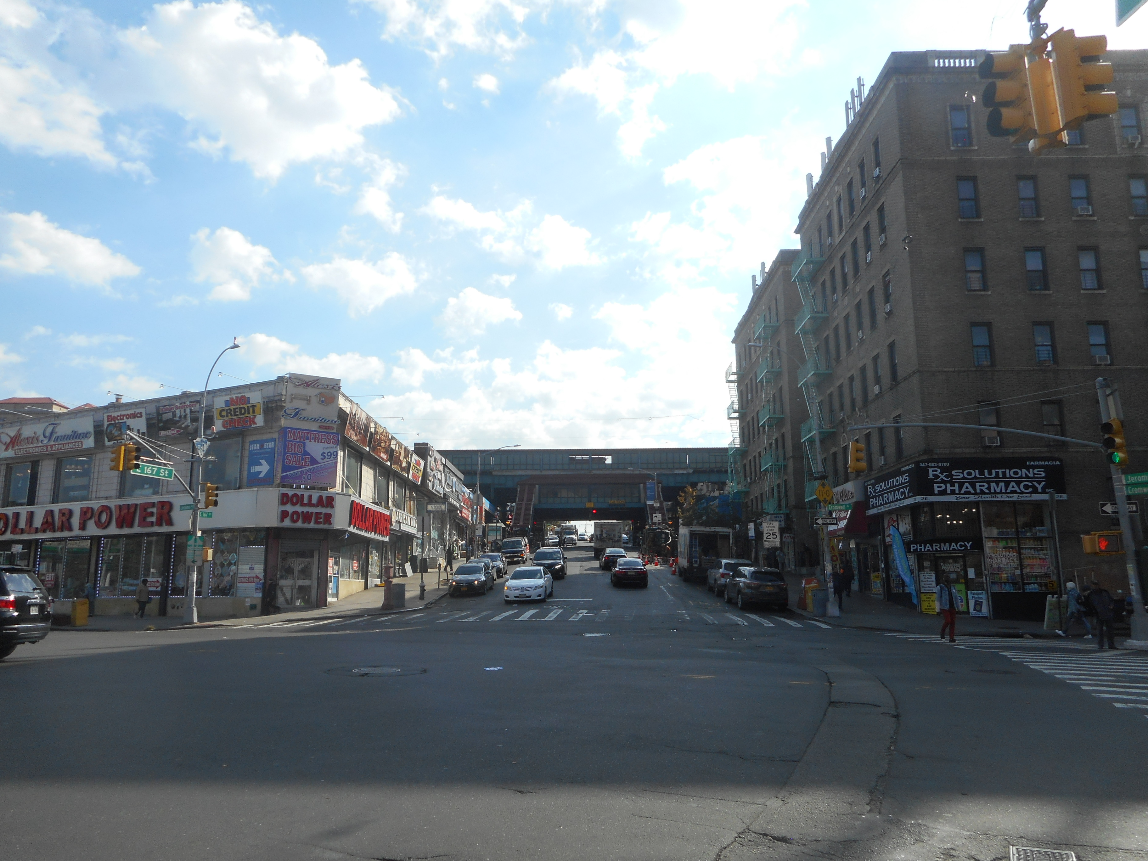 View of the 167th Street (IRT Jerome Avenue Line) station one block west at Jerome Avenue in the Highbridge or Concourse sections of The Bronx. This was yet another image inspired by a Google Street View of the station, and in this case, the outcome was less disappointing. The IRT Jerome Avenue Line doesn't actually run above it's namesake until the north end of River Avenue between 168th and 169th Streets left of this view.